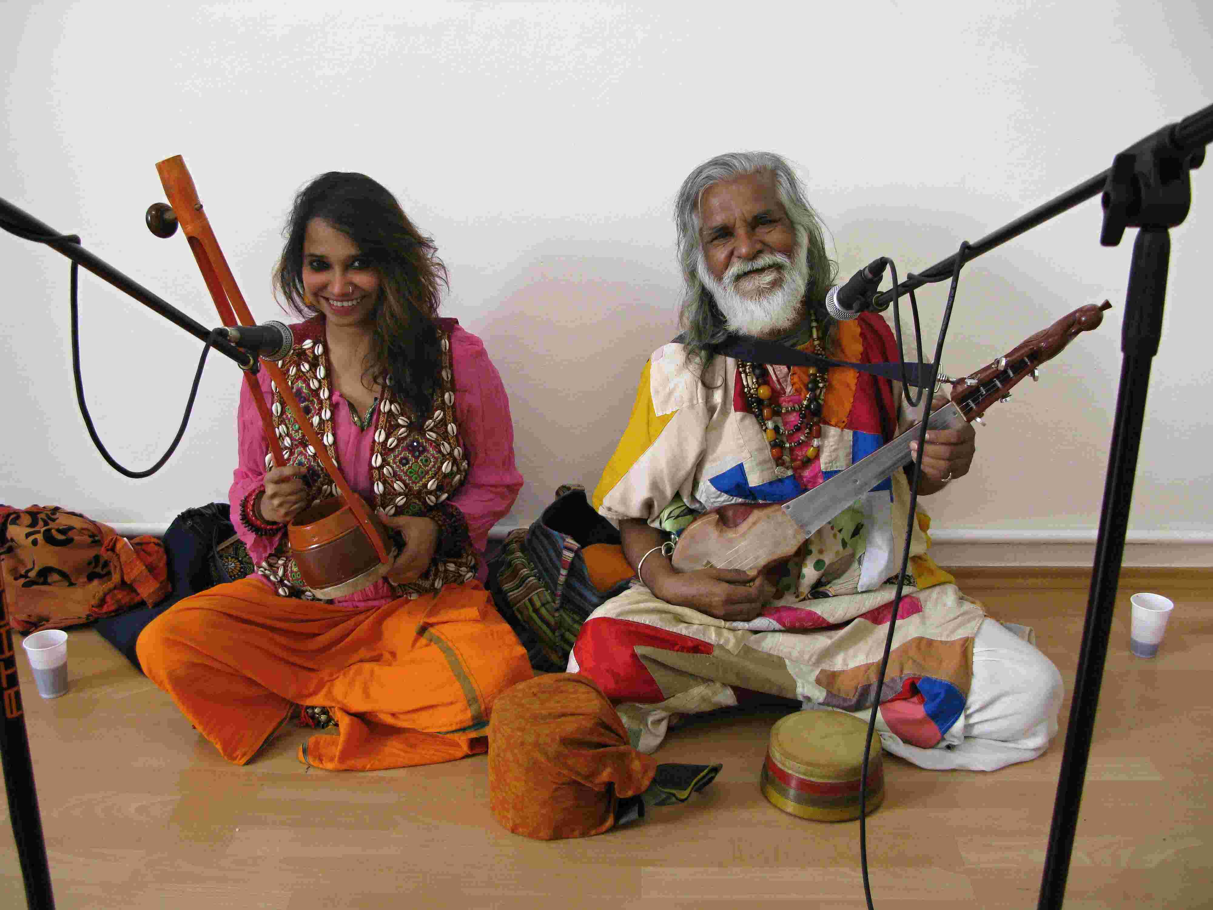 Papia Ghoshal with Biswanath das Baul in the performance